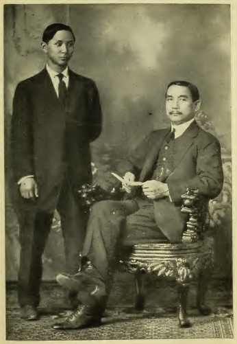 Sun Yat-sen (right) and his son Sun Fo in 1911